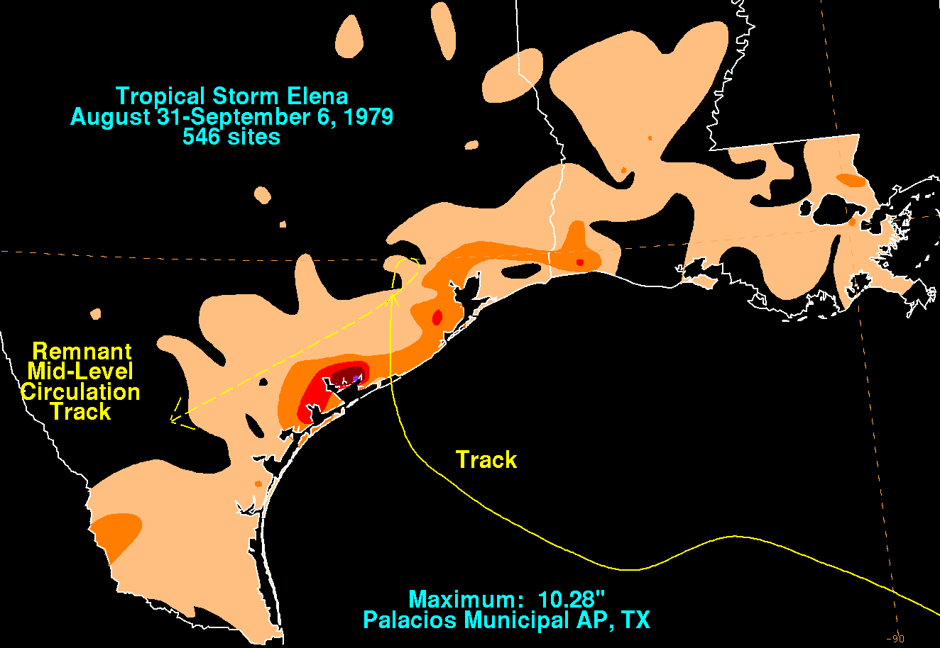 Storm total rainfall map of Tropical Storm Elena during August and September 1979.